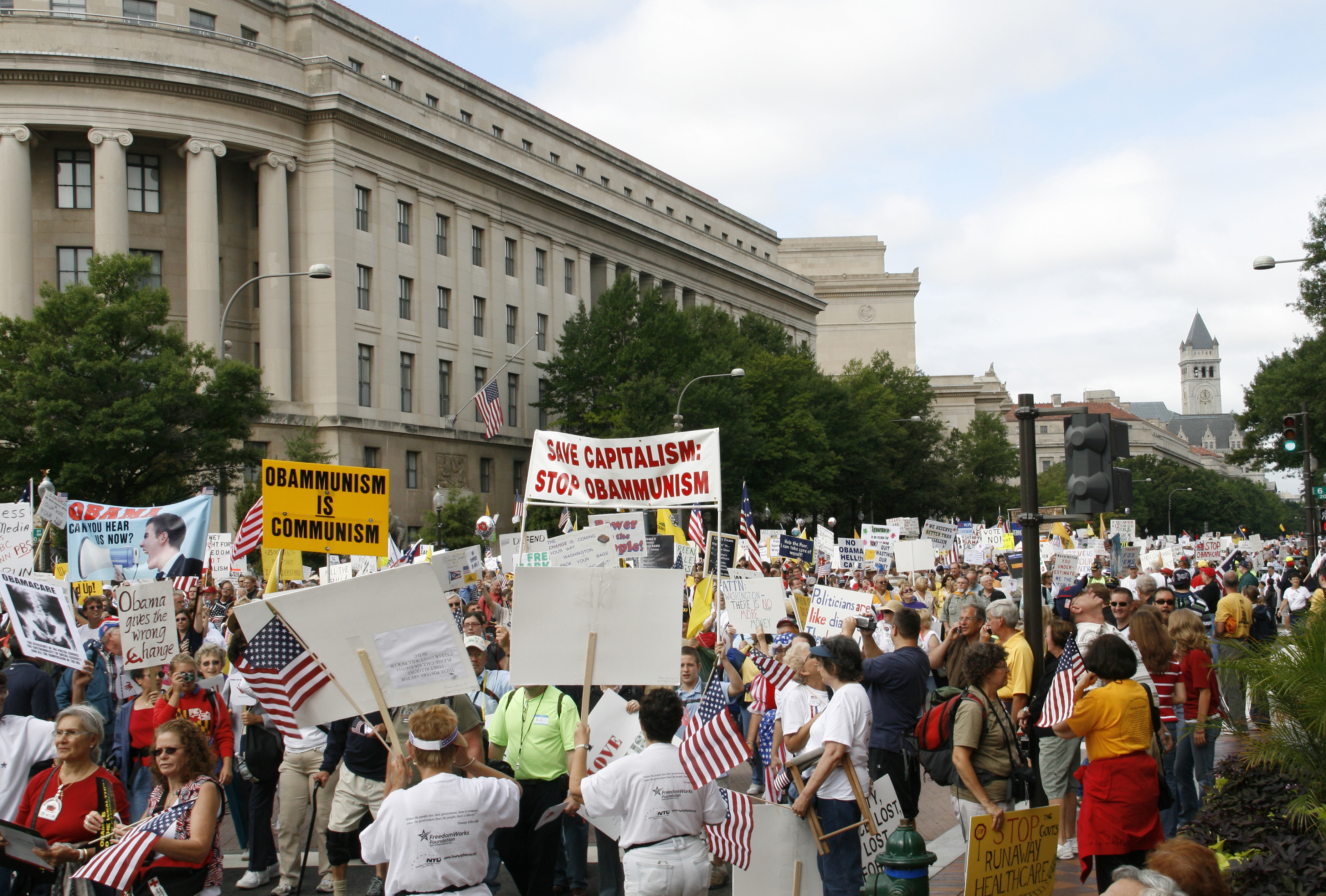 Protesters walking down Pennsylvania Avenue during the Taxpayer March on Washington.